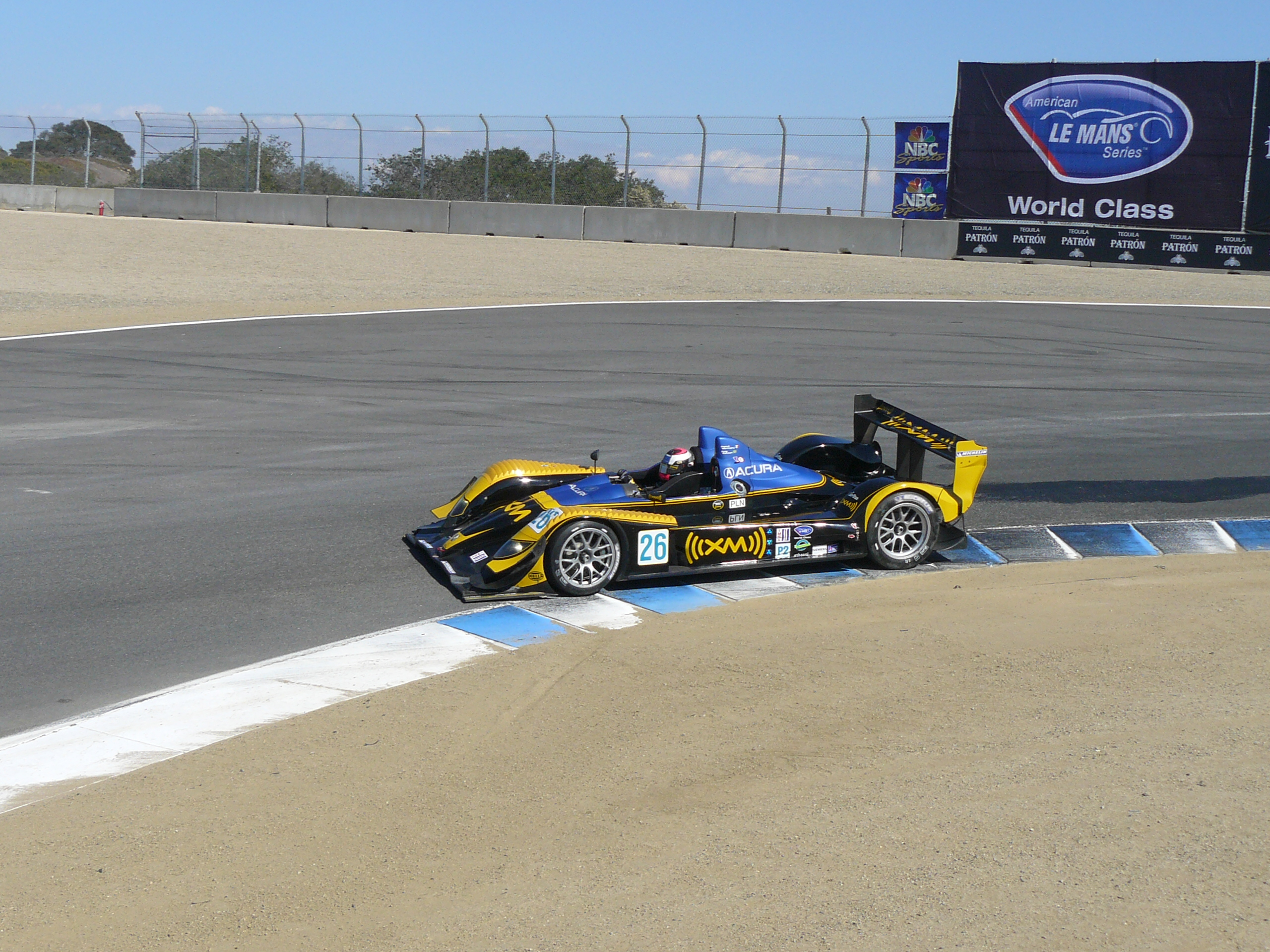 No.26 Andretti Green Racing Acura ARX-01B on the Corkscrew - ALMS Laguna Seca, Monterey, California, USA. October 2008. LMP2 Class winners